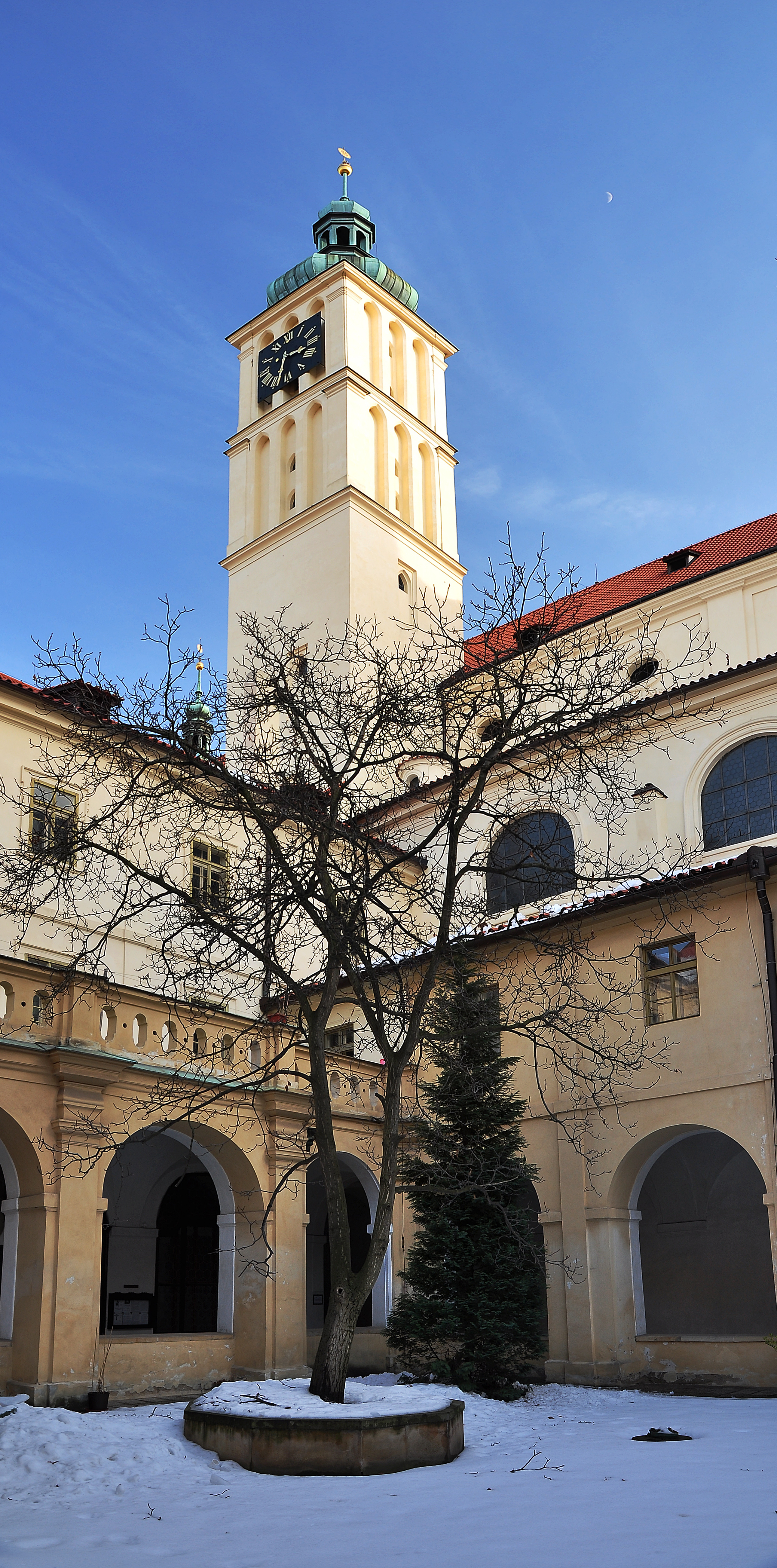 Monastery of st. James